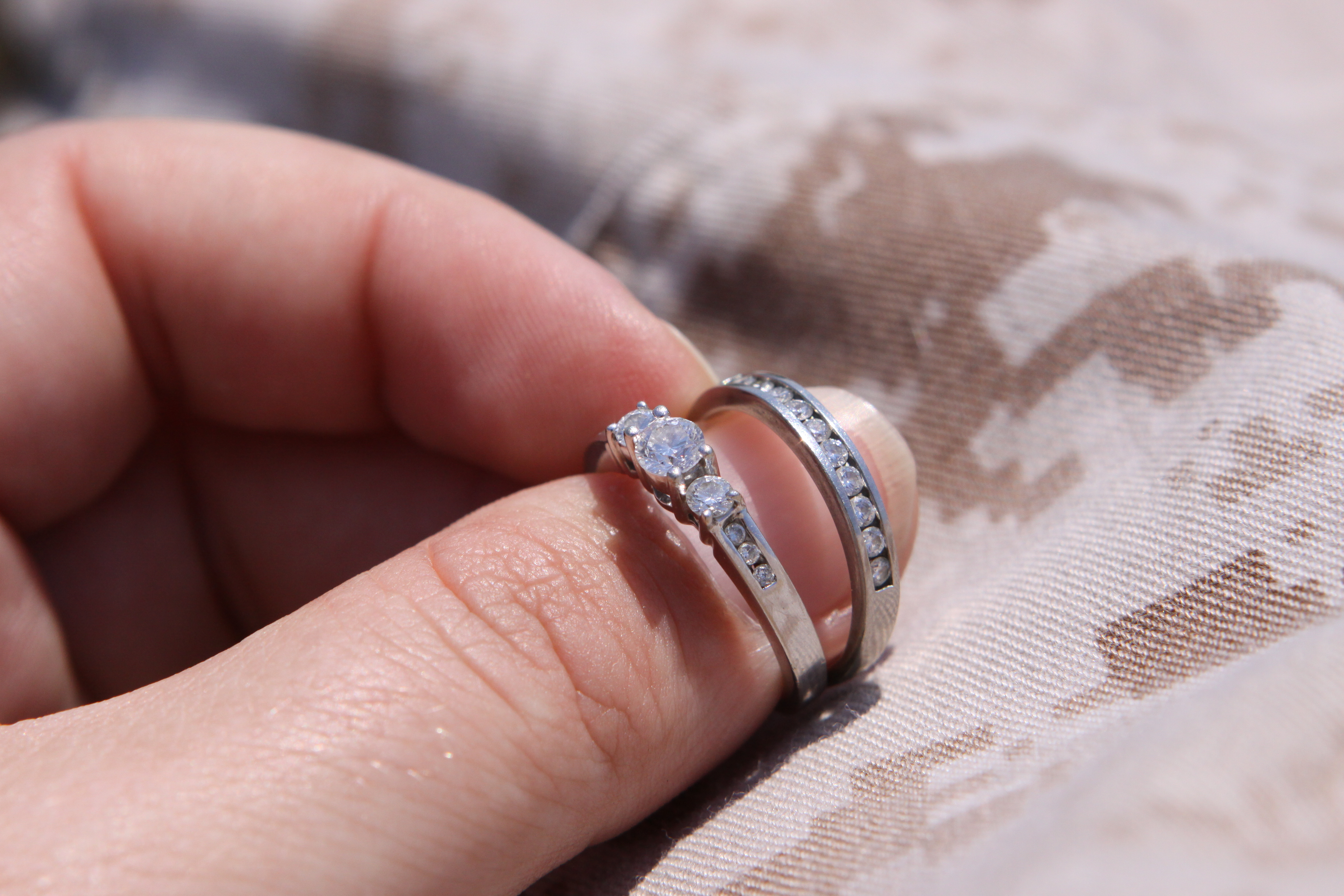 There are many circumstances that can contribute to marital problems within military families. Some common obstacles couples struggle with are the adjustment to married life, the transition into military life, financial struggles, deployments, deployment work ups, long work hours and other events and circumstances that spike stress.